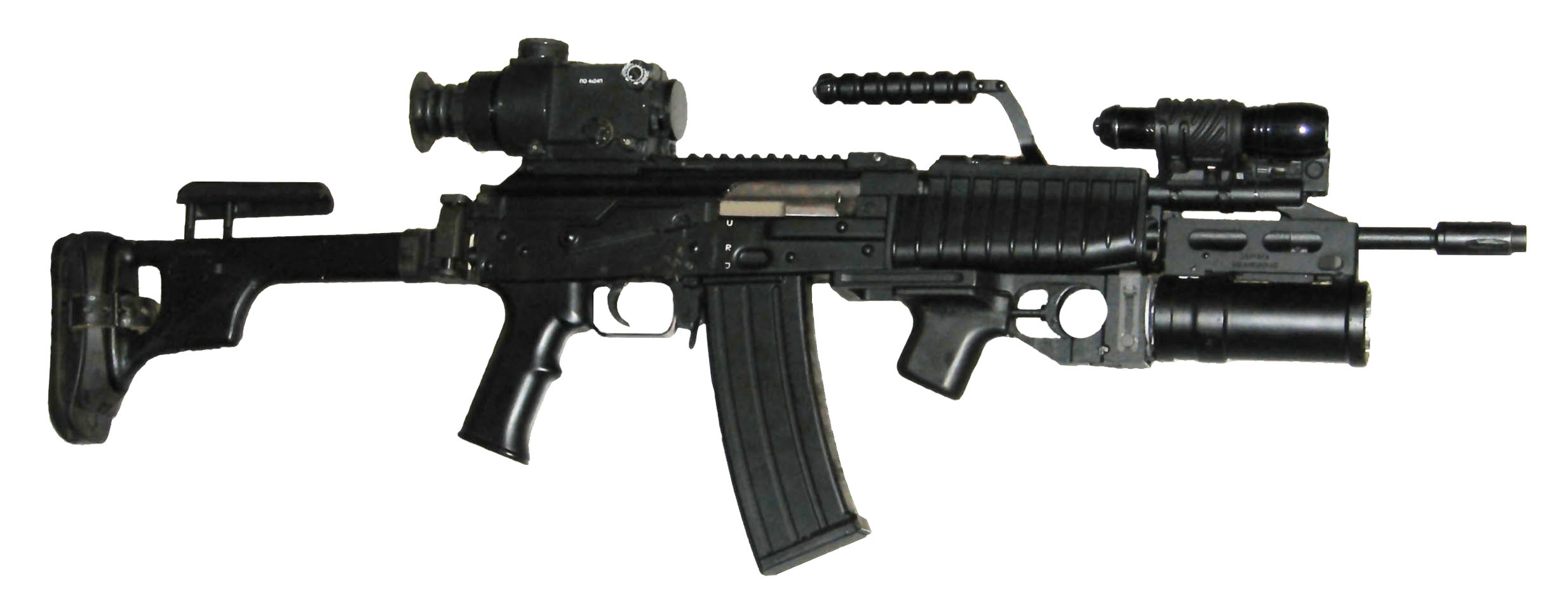 Zastava M-21 C assault rifle in 5,56 × 45 NATO